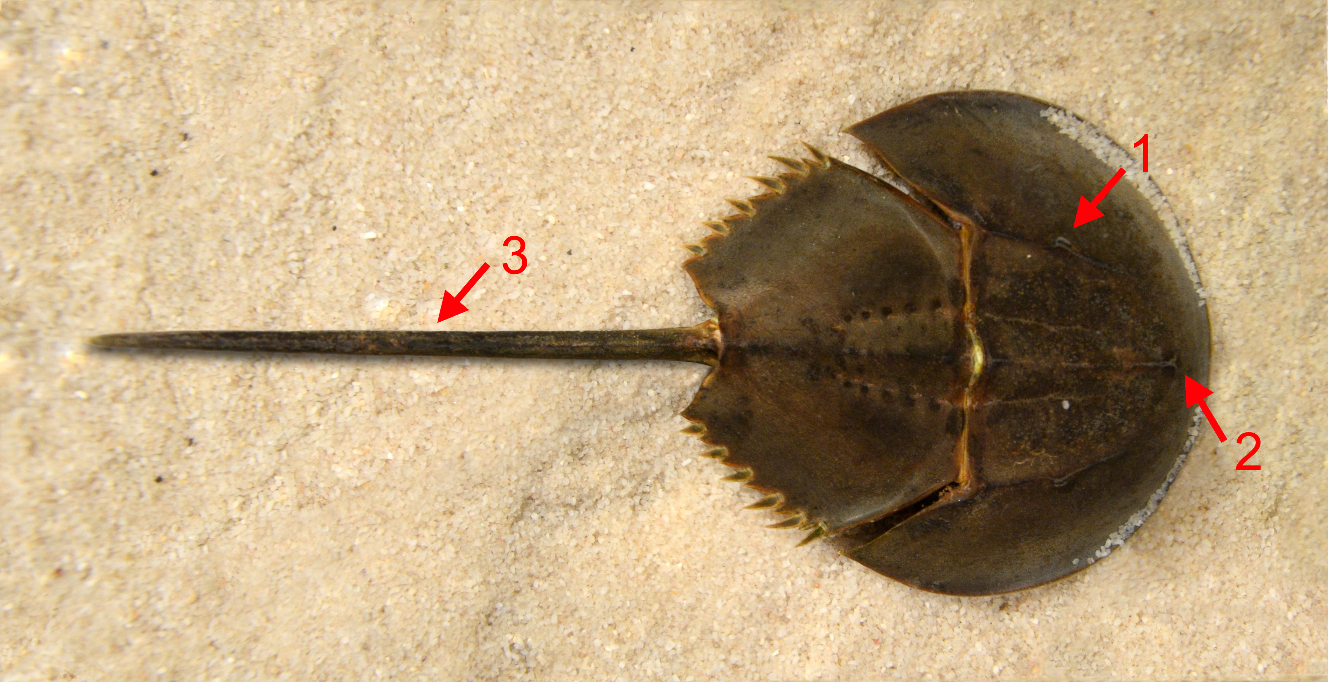 1=Compound eyes (to see in all directions 2=Simple eye (to detect light or dark) 3=telson (tail)